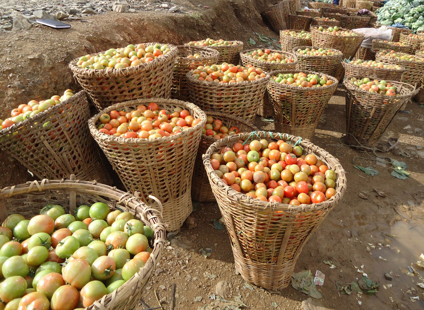 Tomato baskets being ready for market in Nepal.